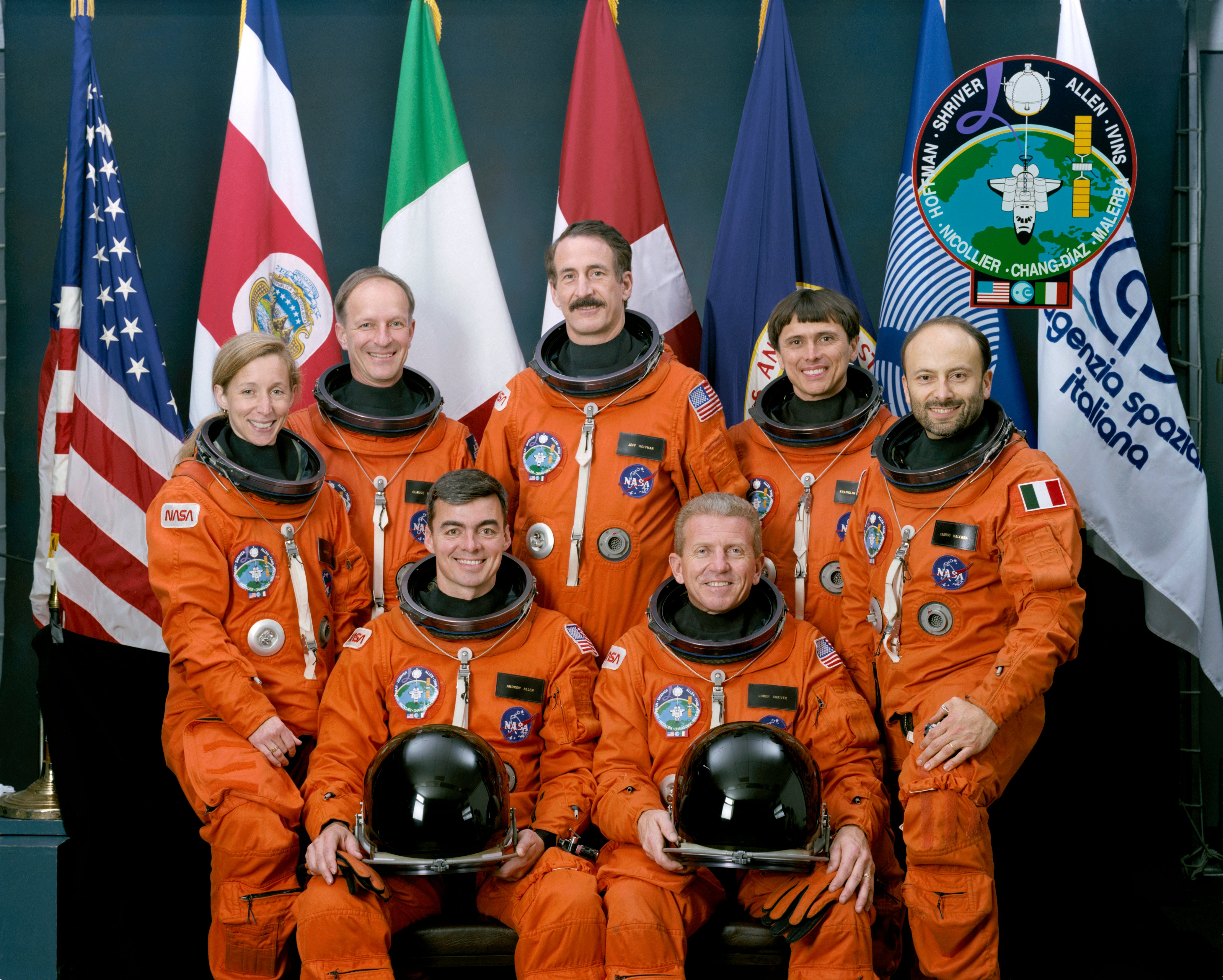 The STS-46 crew portrait includes 7 crew members. Seated in front (left to right) are Andrew M. Allen, pilot; and Loren J. Shriver, commander. Standing (left to right) are Marsha S. Ivins, mission specialist 4; Claude Nicollier, mission specialist 3; Jeffrey A. Hoffman, mission specialist 1; Franklin R. Chang-Diaz, mission specialist 2; and Franco Malerba, payload specialist 1. Launched aboard the Space Shuttle Atlantis on July 31, 1992 at 9:56:48 am (EDT), the mission's primary objectives included the deployment of the European Space Agency's European Retrievable Carrier (EURECA) and operation of the joint NASA/Italian Space Agency Tethered Satellite System (TSS).